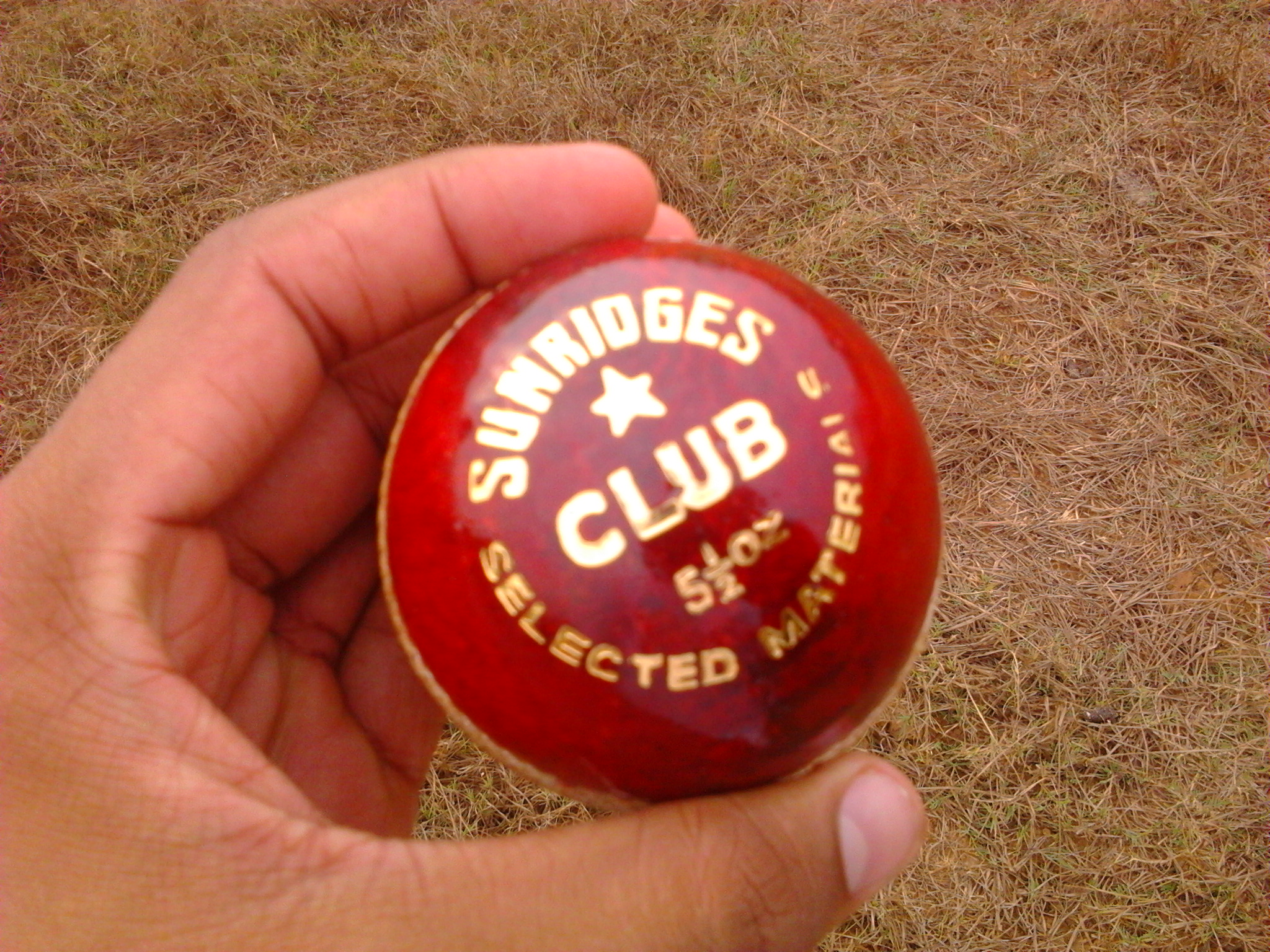 Photoed using Samsung Wave 525.